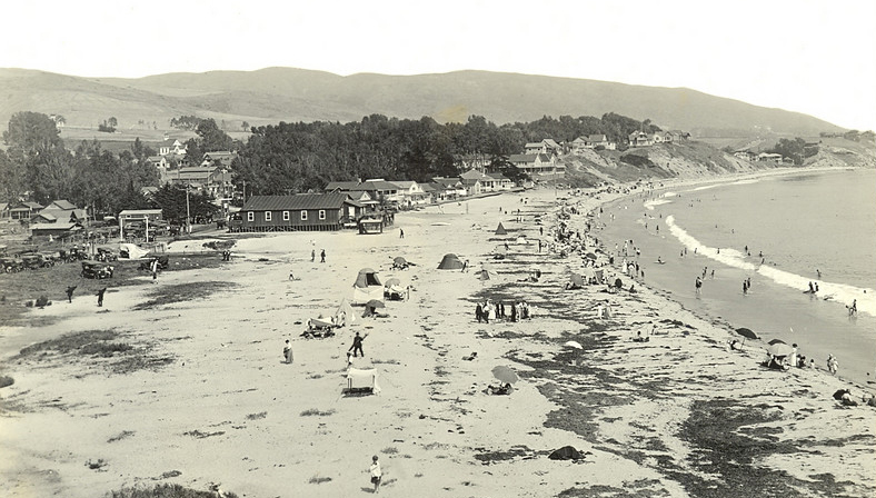 Postcard of Main Beach in Laguna Beach, California ca. 1915 (Part of the Tom Pulley Postcard Collection)